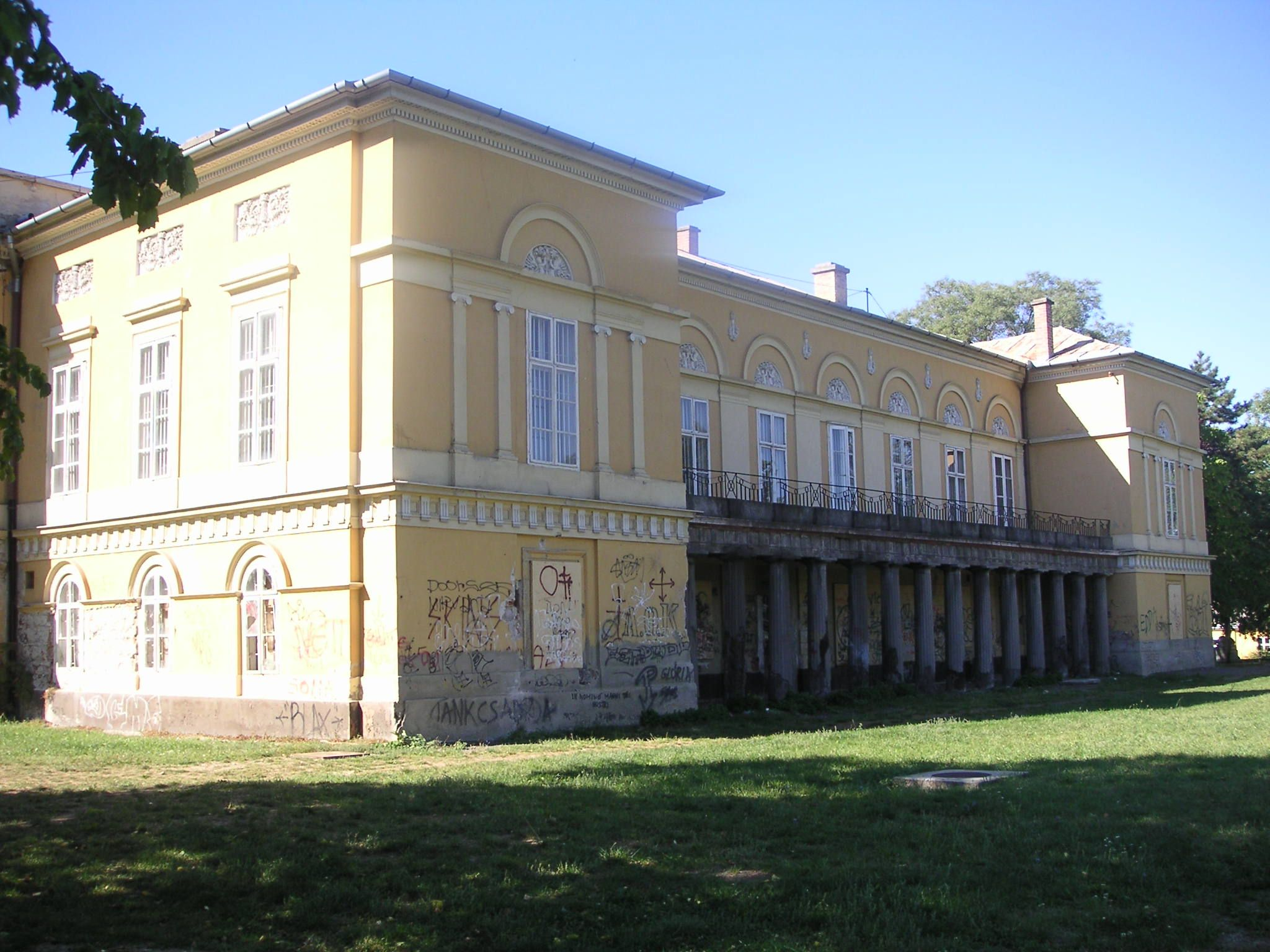 Esterhazy palace, Gyöngyös, Hungary Author: Wojsyl